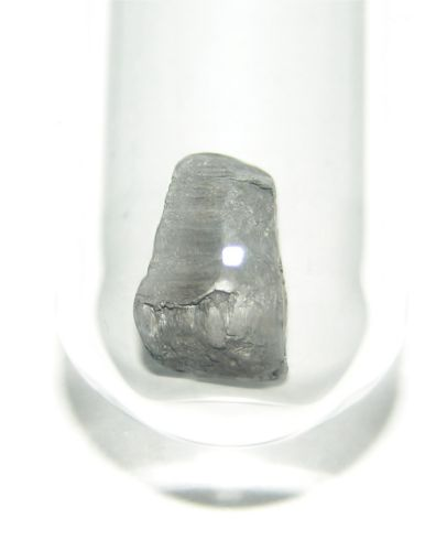 1 gram of Thallium